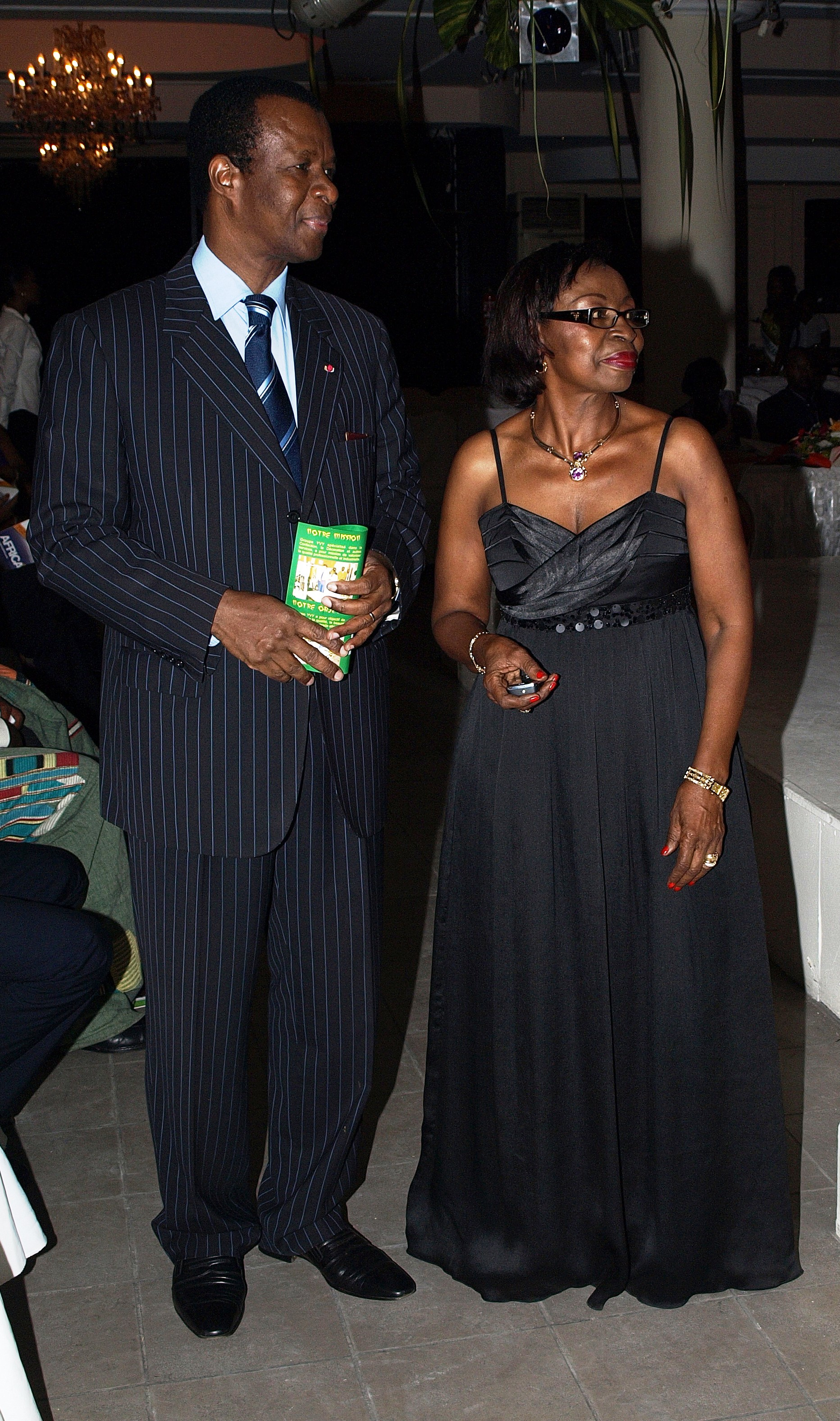 Mireille Nemale en compagnie du Président de la chambre de commerce, d’industrie, des mines et de l’artisanat du Cameroun, Monsieur Christophe Eken